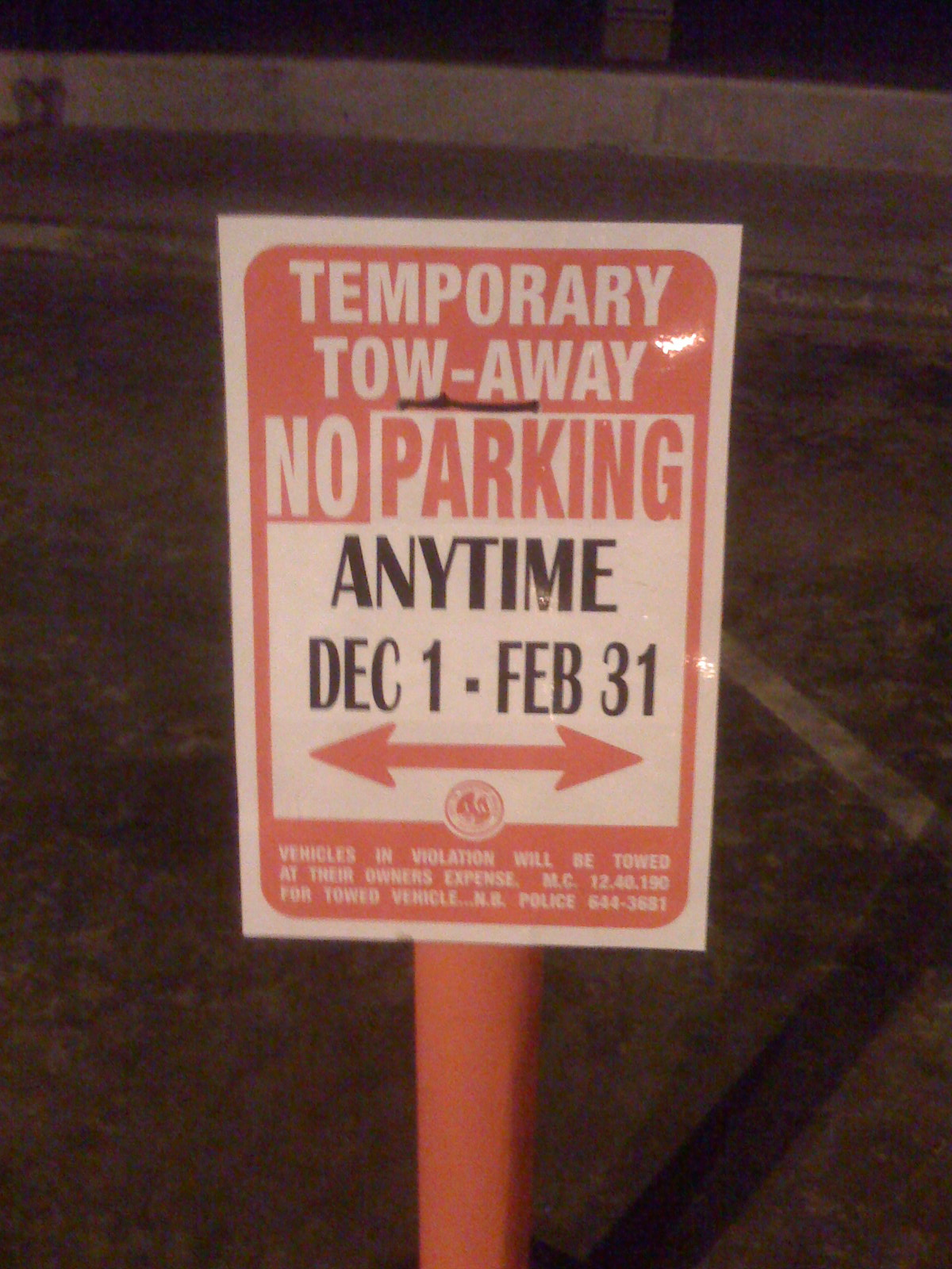 See February Has 31 Days In 2009, Says Newport Beach. Feel free to use this photo. Just link to the photo page or the story.